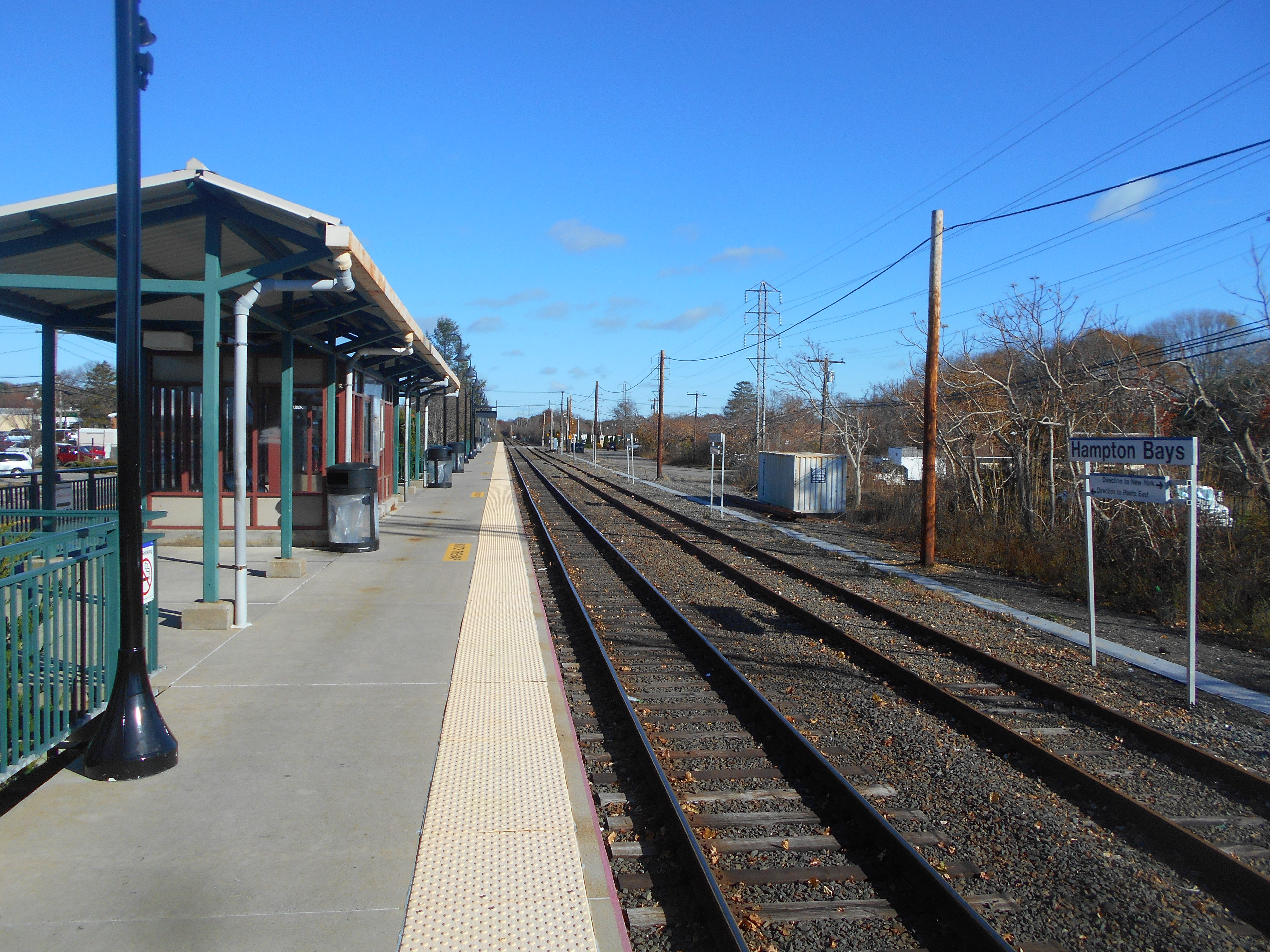 The platform at the Hampton Bays station for the Long Island Rail Road in Hampton Bays, New York.